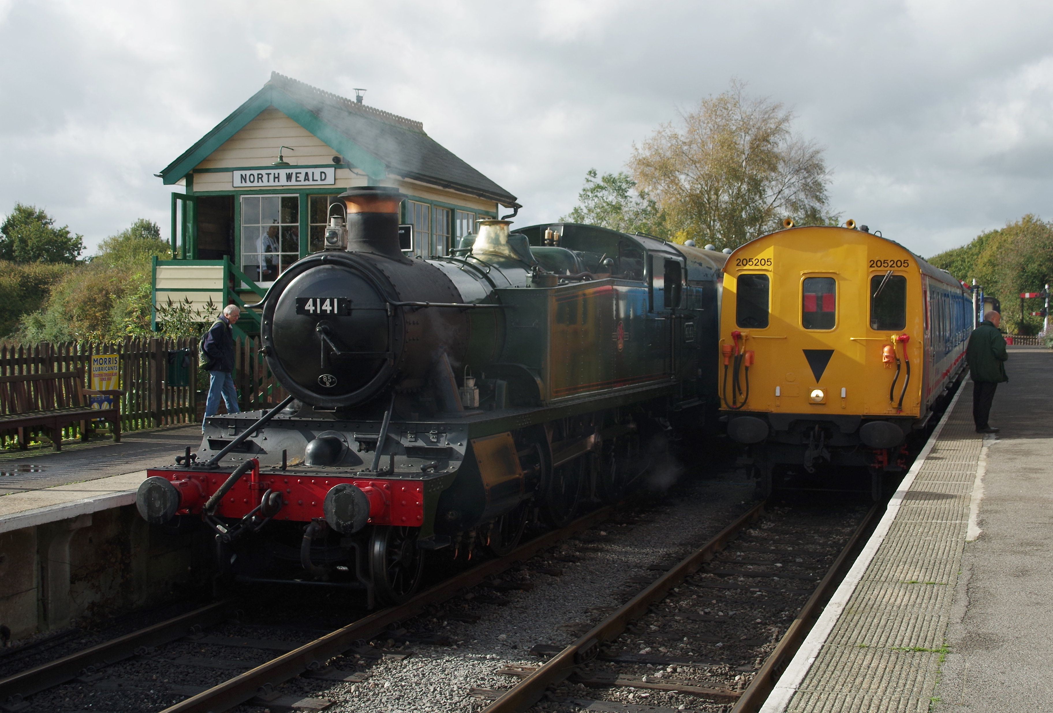 GWR 5101 class steam locomotive 4141 and British rail class 205 "Thumper" DEMU 205205 stand at North Weald railway station on the Epping Ongar Railway.